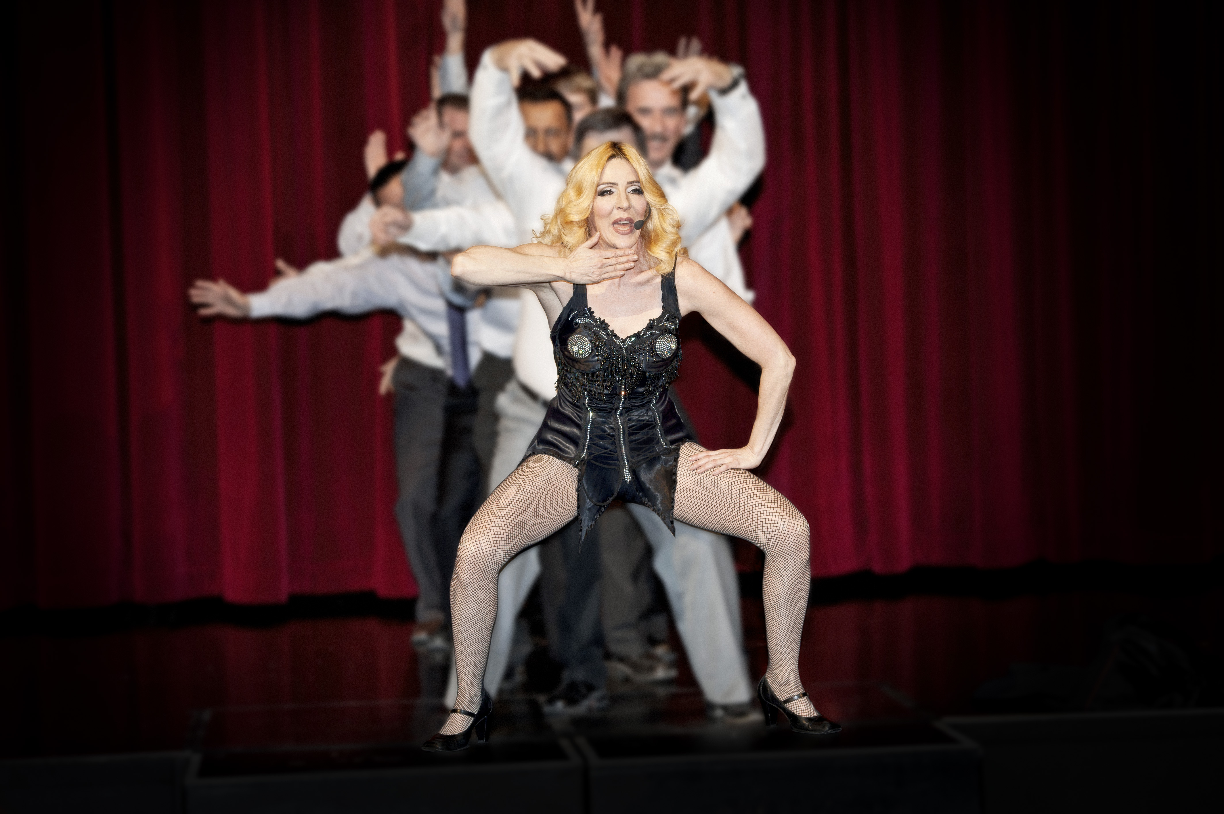 Tracey Bell, a Madonna impersonator, dancing to the singer's "Vogue"